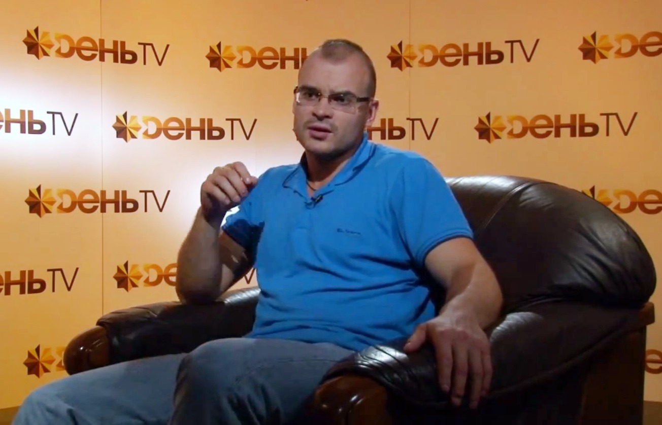 Outspoken nationalist Maxim Martsinkevich talks on the Russian penitentiary system on the air of Den TV. Moscow, September 27, 2012.